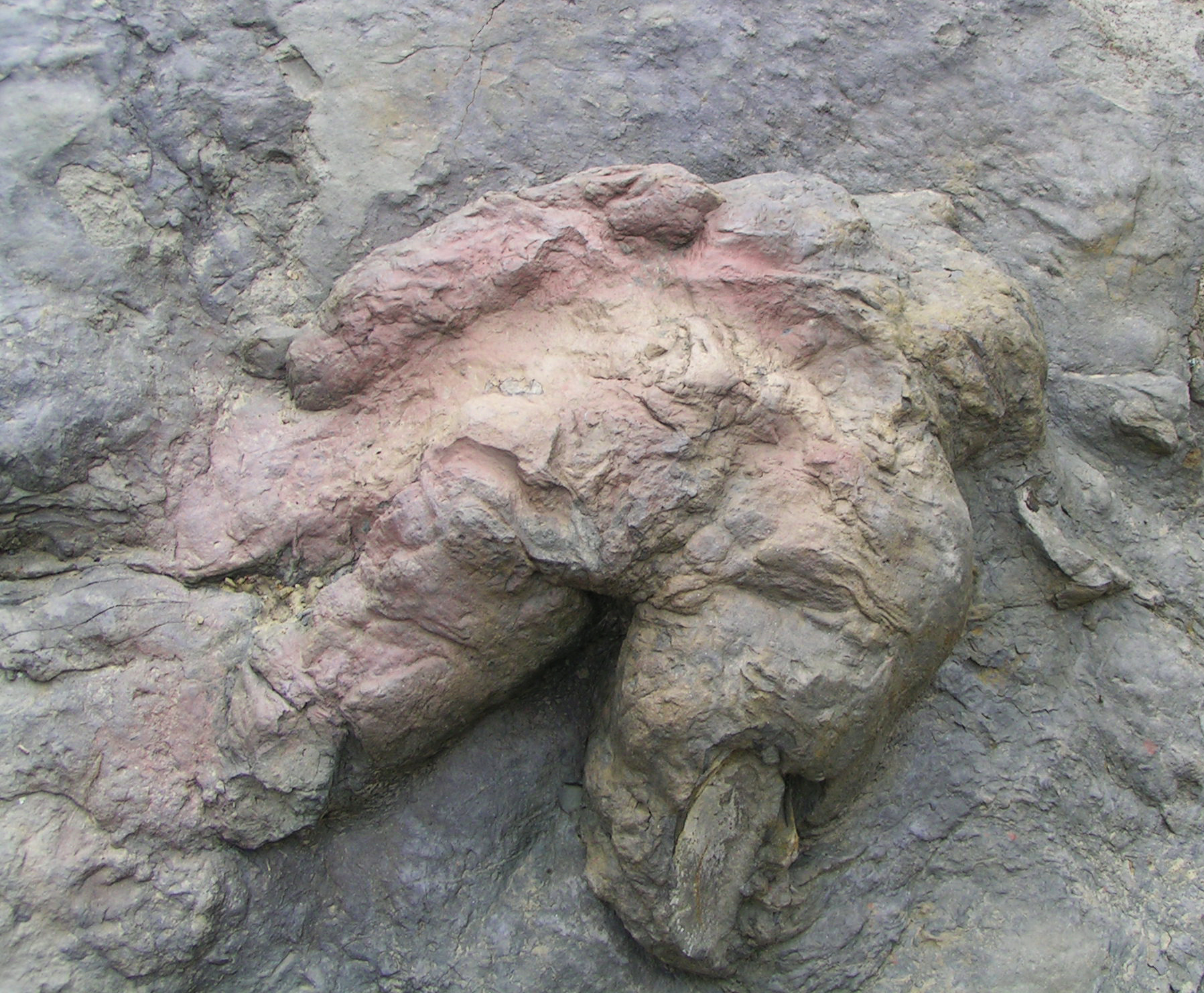 Tyrannosauripus pillmorei, probable Tyrannosaurus footprint from Philmont Scout Ranch, New Mexico